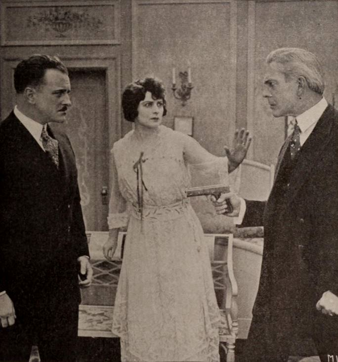 Still from an advertisement for the American drama film The Splendid Sin (1919) with Wheeler Oakman, Madlaine Traverse, and Charles Clary, on page 9 of the September 13, 1919 Exhibitors Herald.